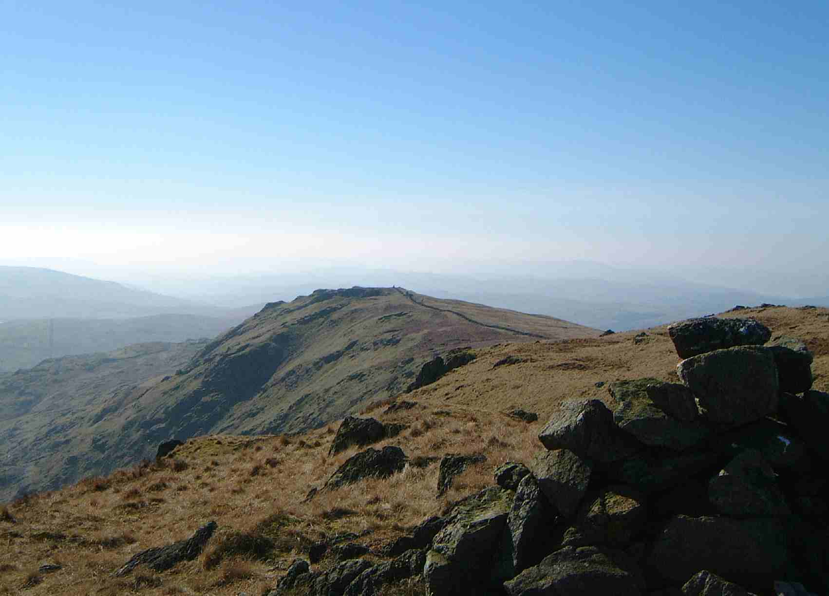 Personal photograph taken by Mick Knapton